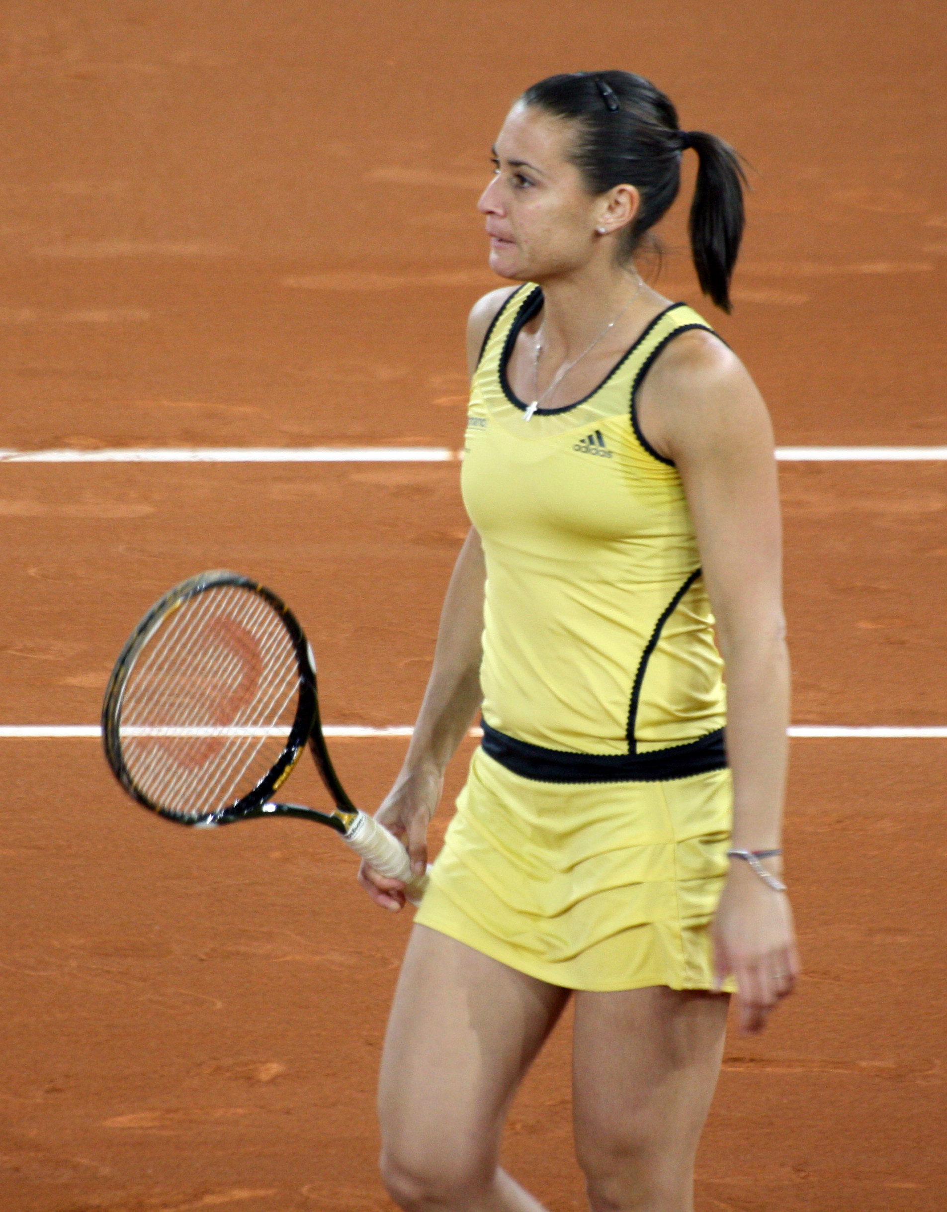 Flavia Pennetta playing the 2010 Mutua Madrileña Madrid Open doubles female final